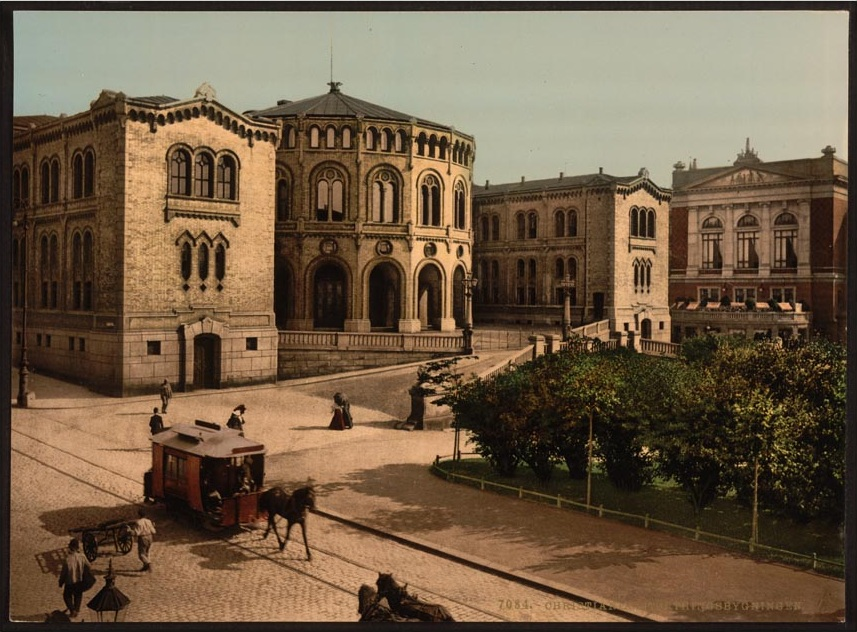 Storthings Bygningen Christiania Norway